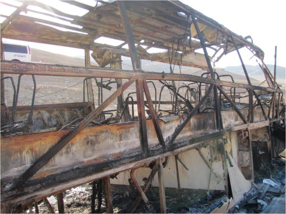 August 19, 2011 Explosive materials and weapons found on the bodies of the terrorists who carried out a multi-pronged terror attack that targeted Israeli civilians on August 18, 2011. The terror attack left eight people dead and at least 40 others injured. In a premeditated attack, terrorists targeted Israeli civilians, who were on their way to Eilat, a popular tourist destination for summer vacations. All of the incidents took place near the Israel-Egypt border. According to Israeli intelligence, the terrorists originated from Gaza.